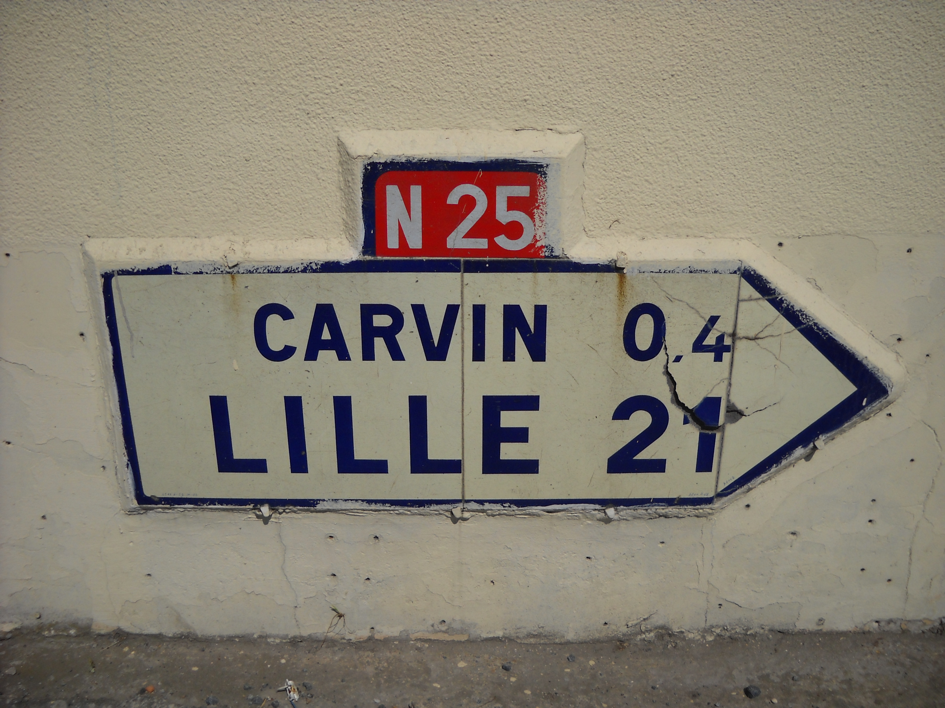 An old road sign, in Carvin, Pas-de-Calais, France.